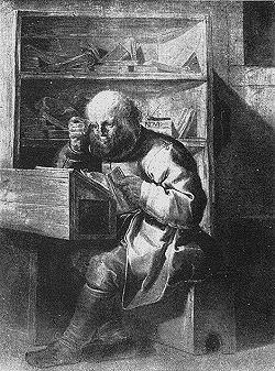 Cornelis Kiliaan as corrector with the printer Christoffel Plantijn